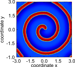 Rotating spiral (numerical calculation) in a two-component reaction-diffusion system of Fitzhugh-Nagumo type, produced by Dr. H. U. Bödeker. A finite-element algorithm was used in the calculation.